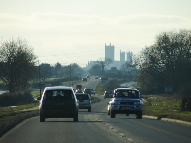 The road to Lincoln Approaching North Greetwell along the A158. Lincoln Cathedral stands proudly in the distance.